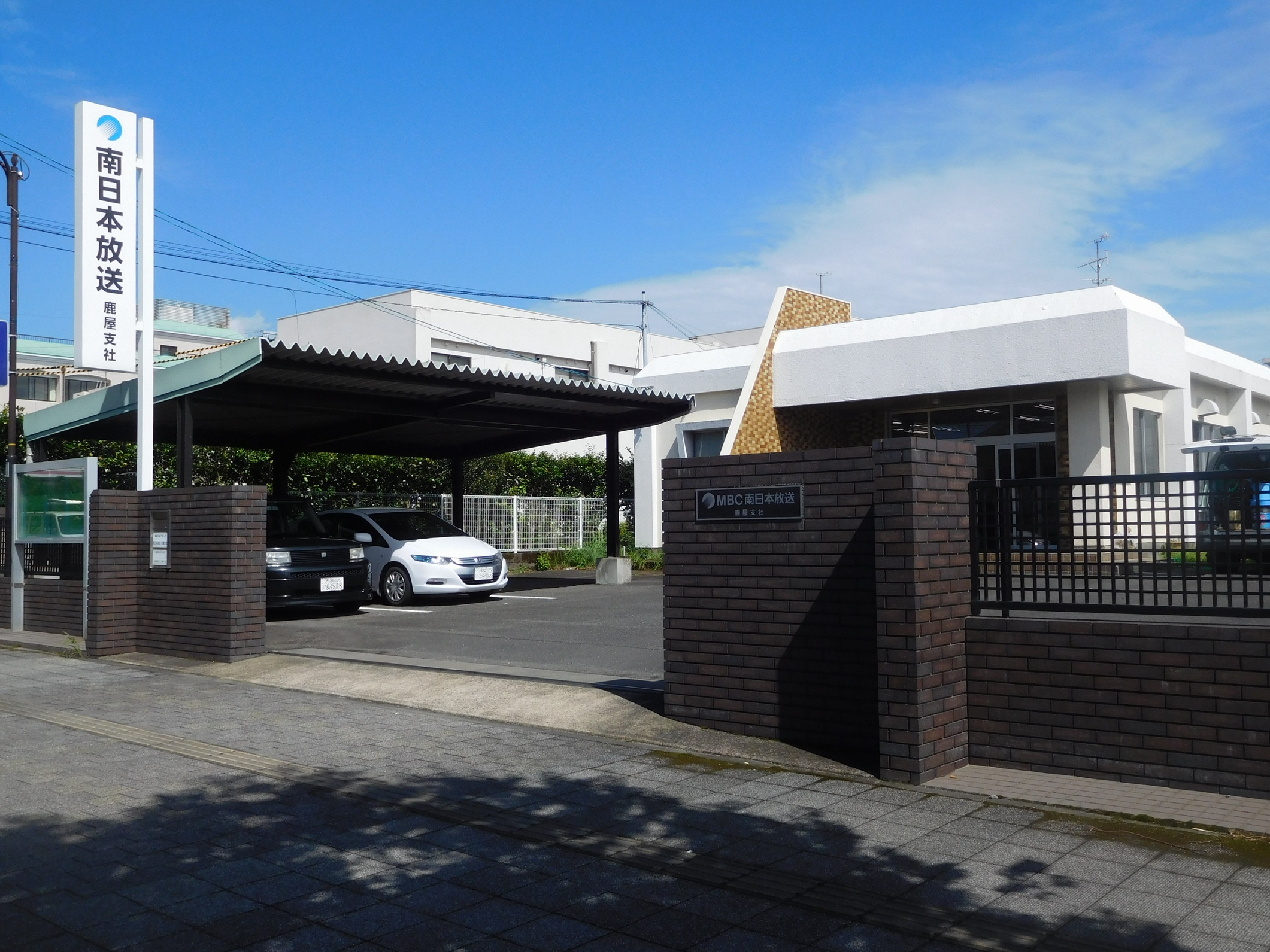 MBC (Minaminihon Broadcasting) Kanoya Branch (Kanoya City, Kagoshima Prefecture, Japan)